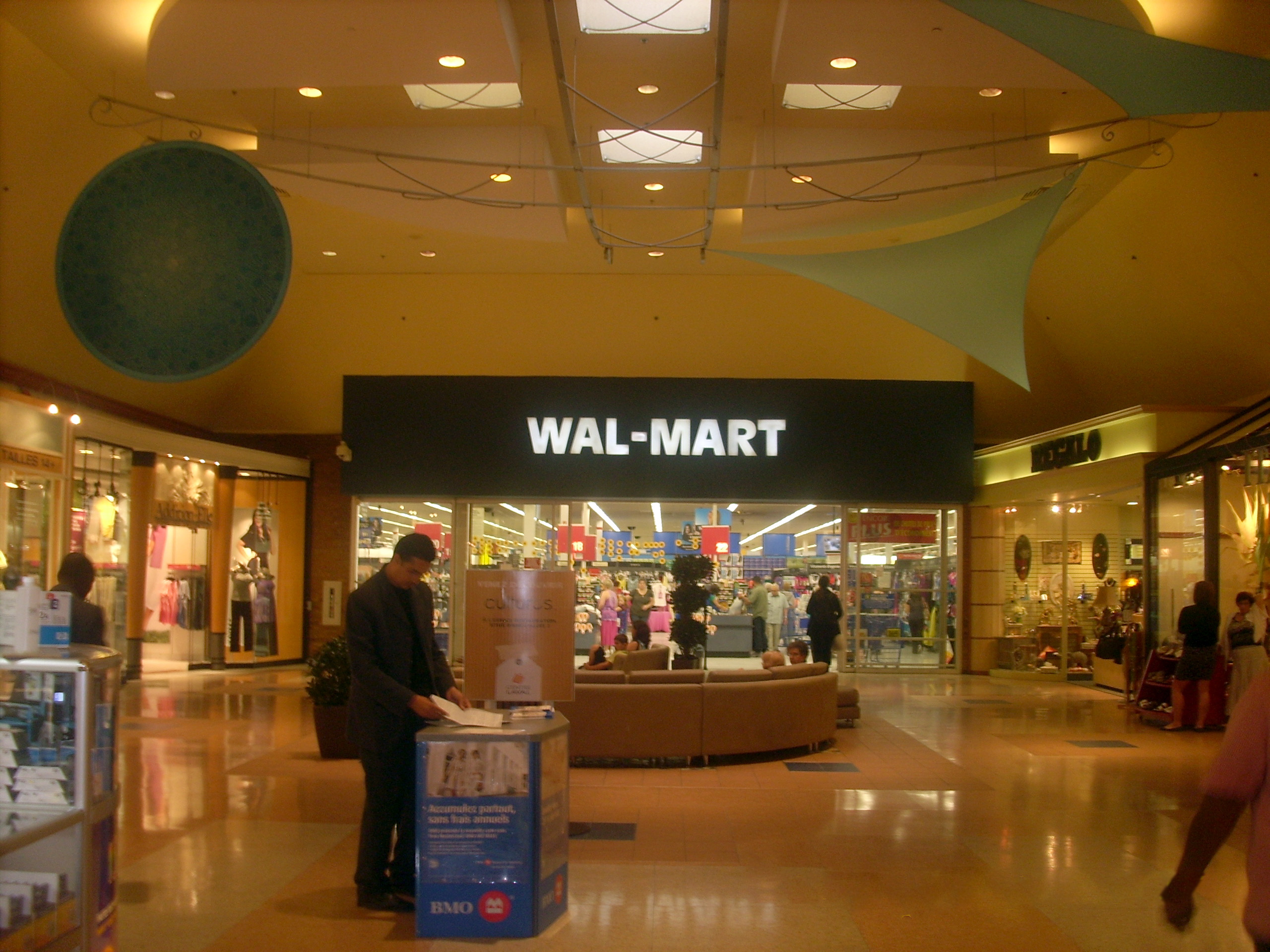 Walmart (indoor entrance) photographed in Laval, Quebec, Canada at Centre Laval.